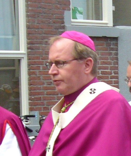 Archbishop Wim Eijk of Utrecht during the Willibrord Procession, 14 September 2008